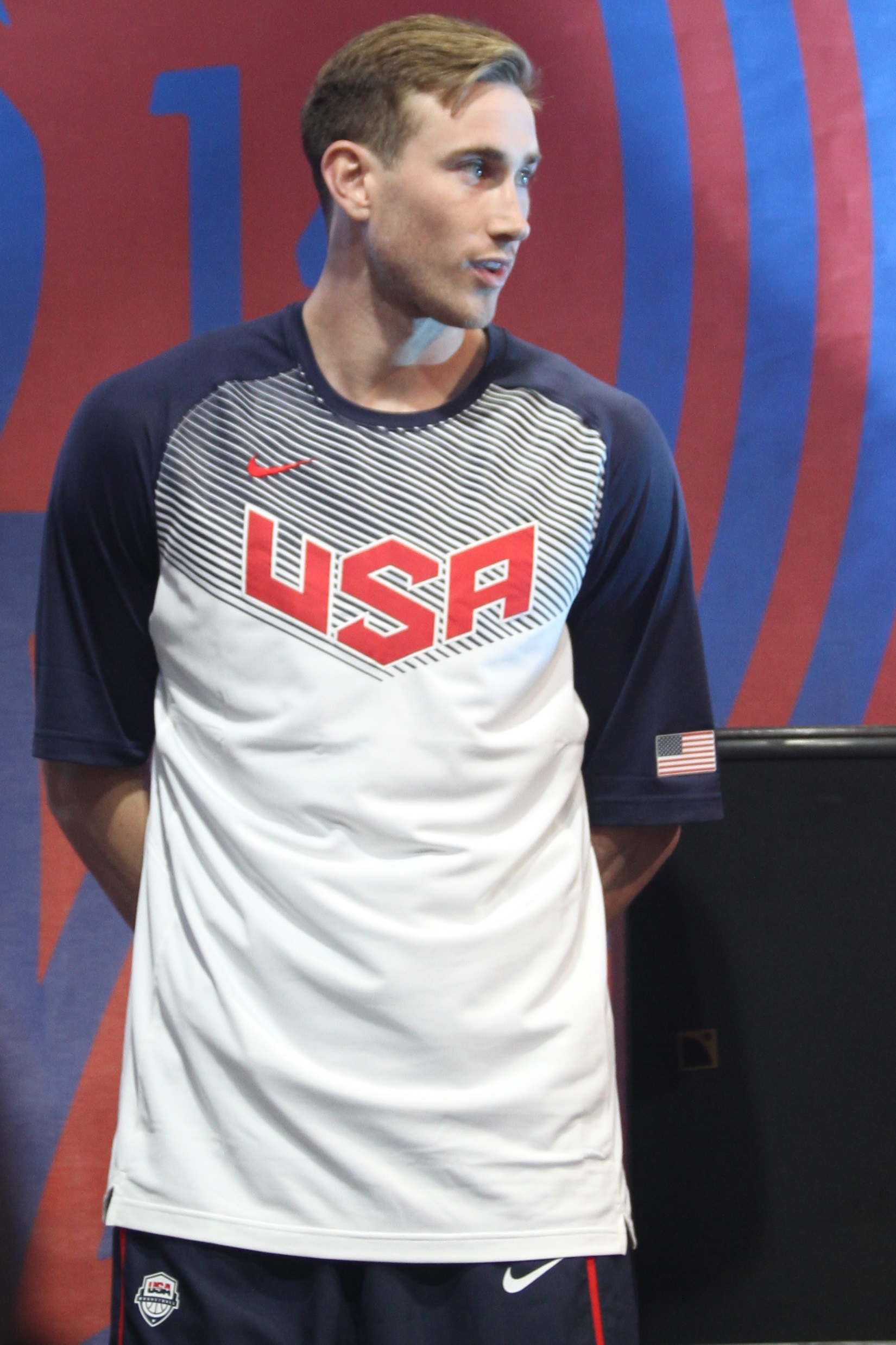 Gordon Hayward at 2014 World Basketball Festival at 63rd Street Beach in Chicago